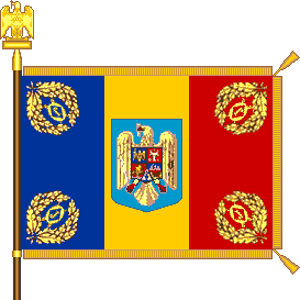 The flag of the Romanian Gendarmerie.